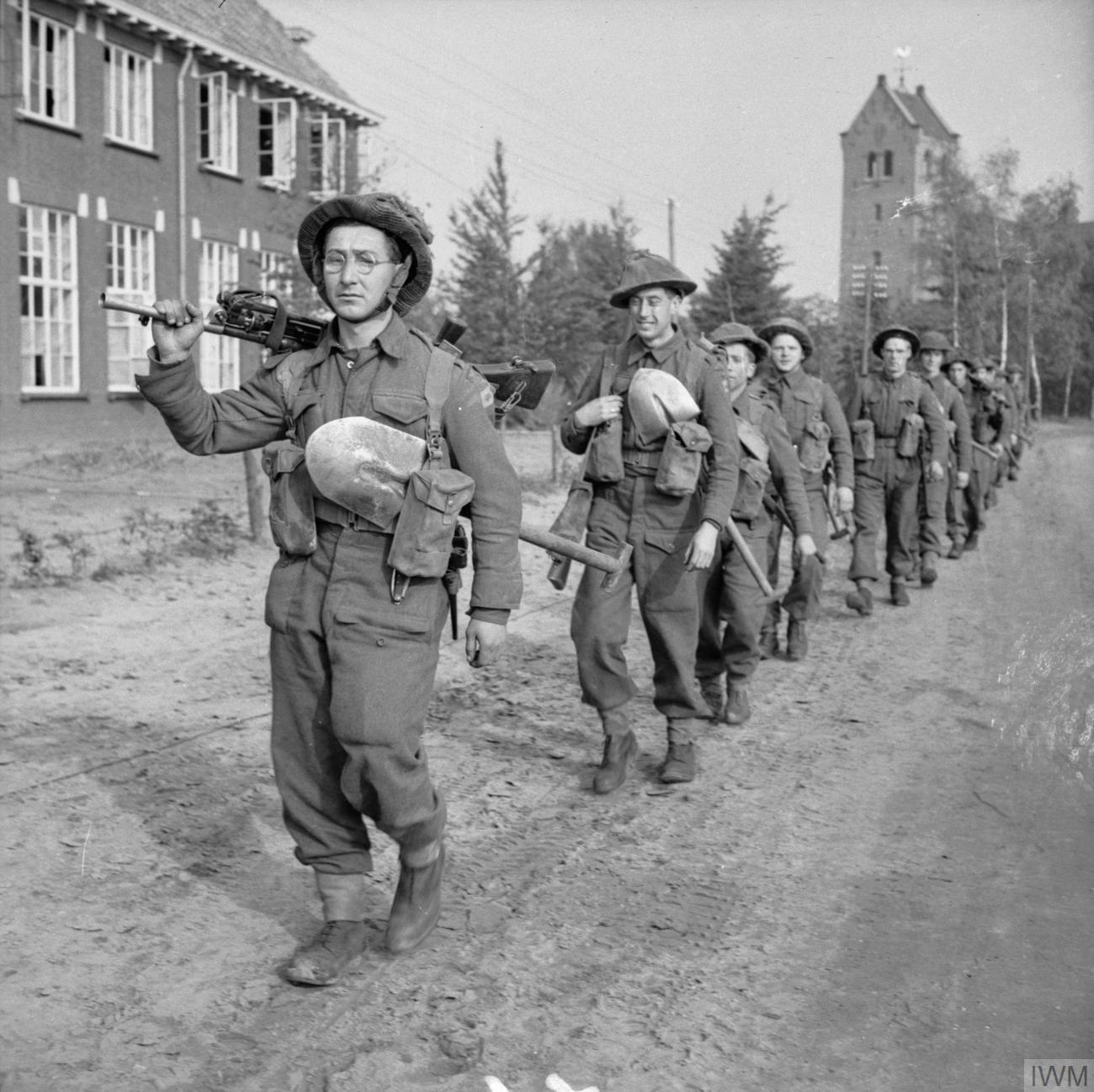 The British Army in North-west Europe 1944-45 Men of the King's Shropshire Light Infantry march back from the front line for a four day rest , 26 October 1944.